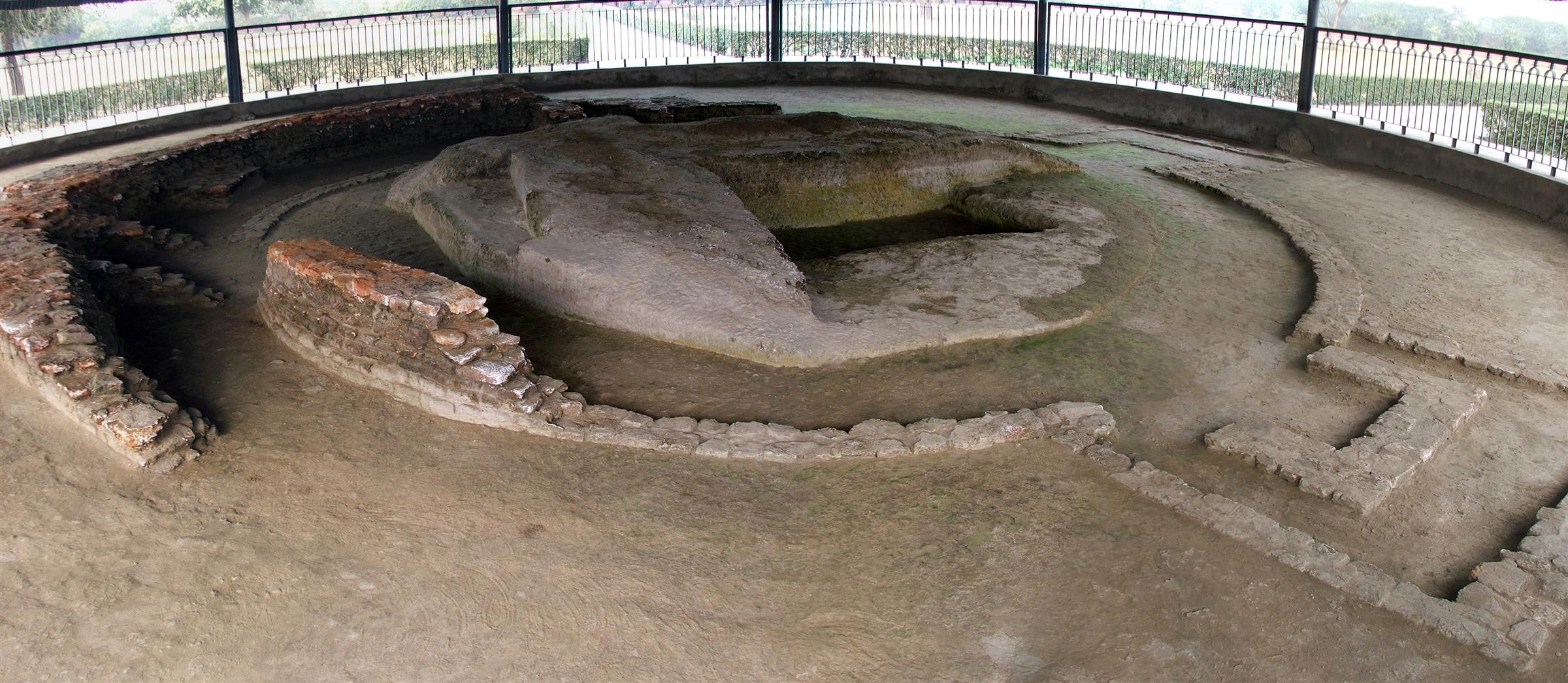 The relic Stupa at Vaishali (Vesali), India. Here the Buddha's relics were interred by the Licchavis of Vesali in 483 BC. Currently the relics are kept in the Patna Museum.